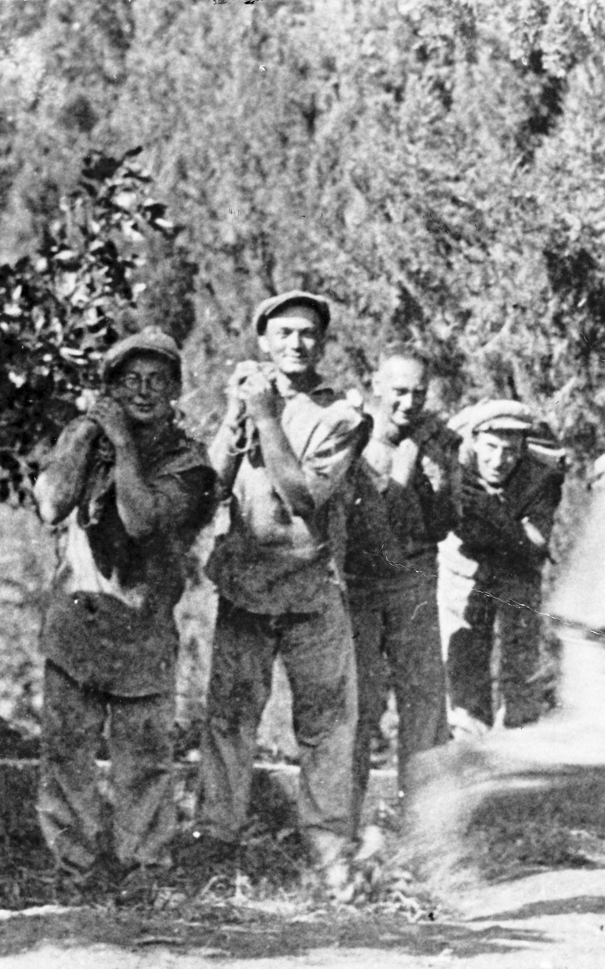 Gan-Shmuel sb7- 13, Agriculture in Israel